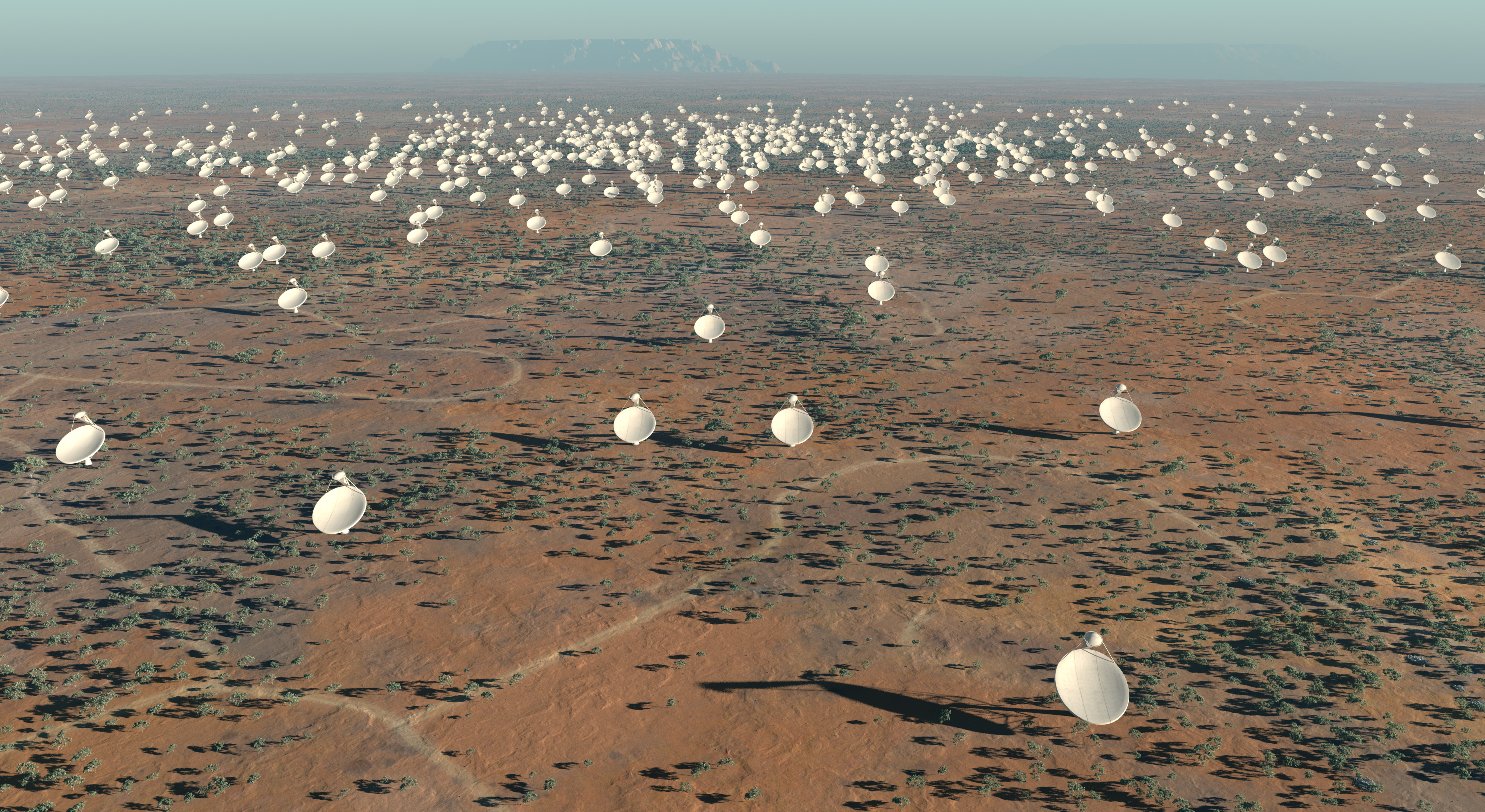 Artist's impression of the 5km diameter central core of Square Kilometre Array (SKA) antennas.